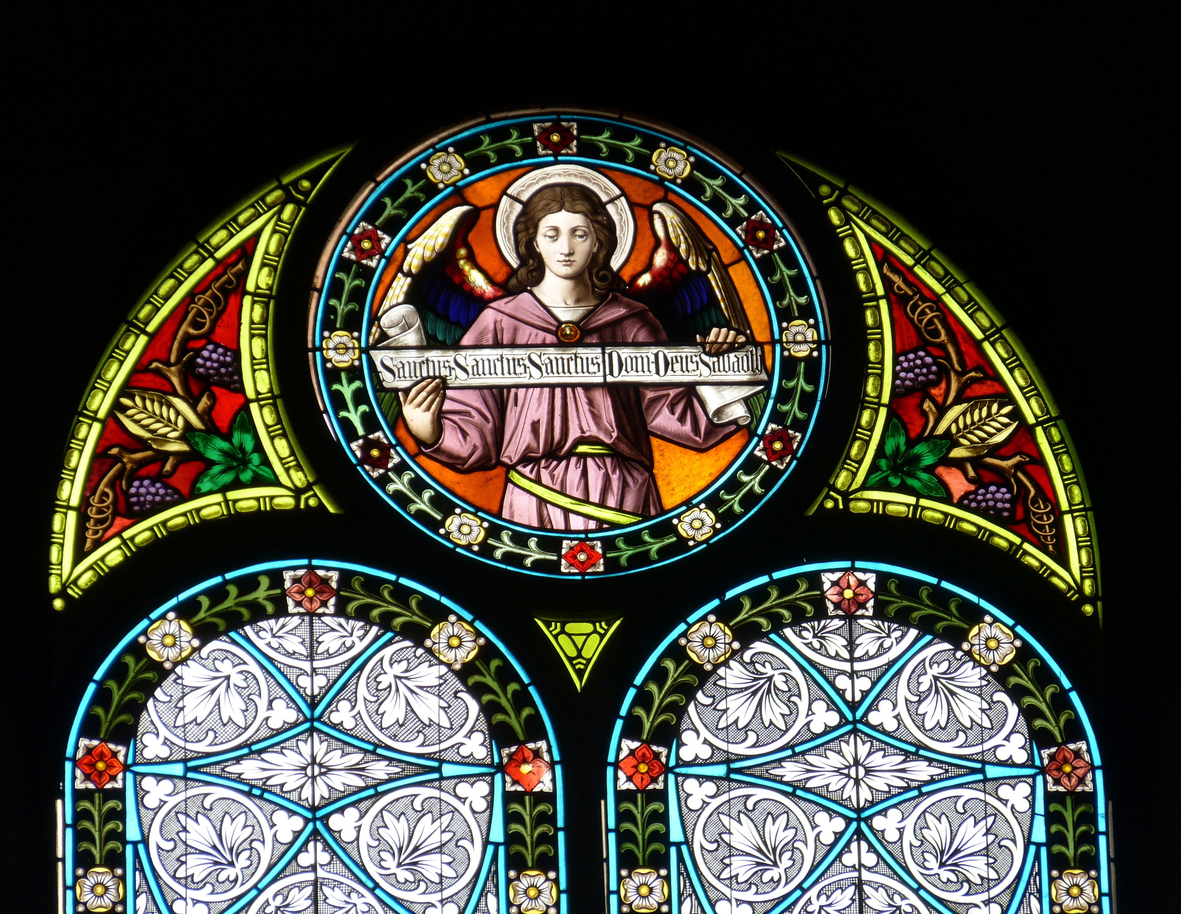 Schlägl ( Upper Austria ). Monastery church - Stained glass windows ( 1893 ) in the nave: Angel with the Latin inscription SANCTUS SANCTUS SANCTUS DOM DEUS SABAOTH ( Holy, Holy, Holy is the Lord Sabaoth ).